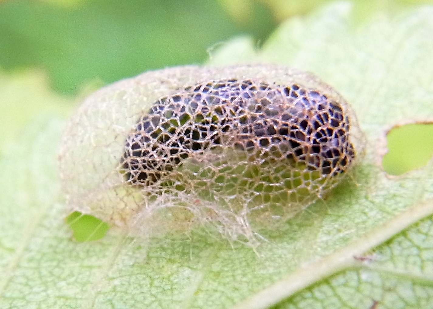 Aproceros leucopoda from Southern Hungary near in elm-forest at 2012-05-30 at dead branches and underside of elm-leafes